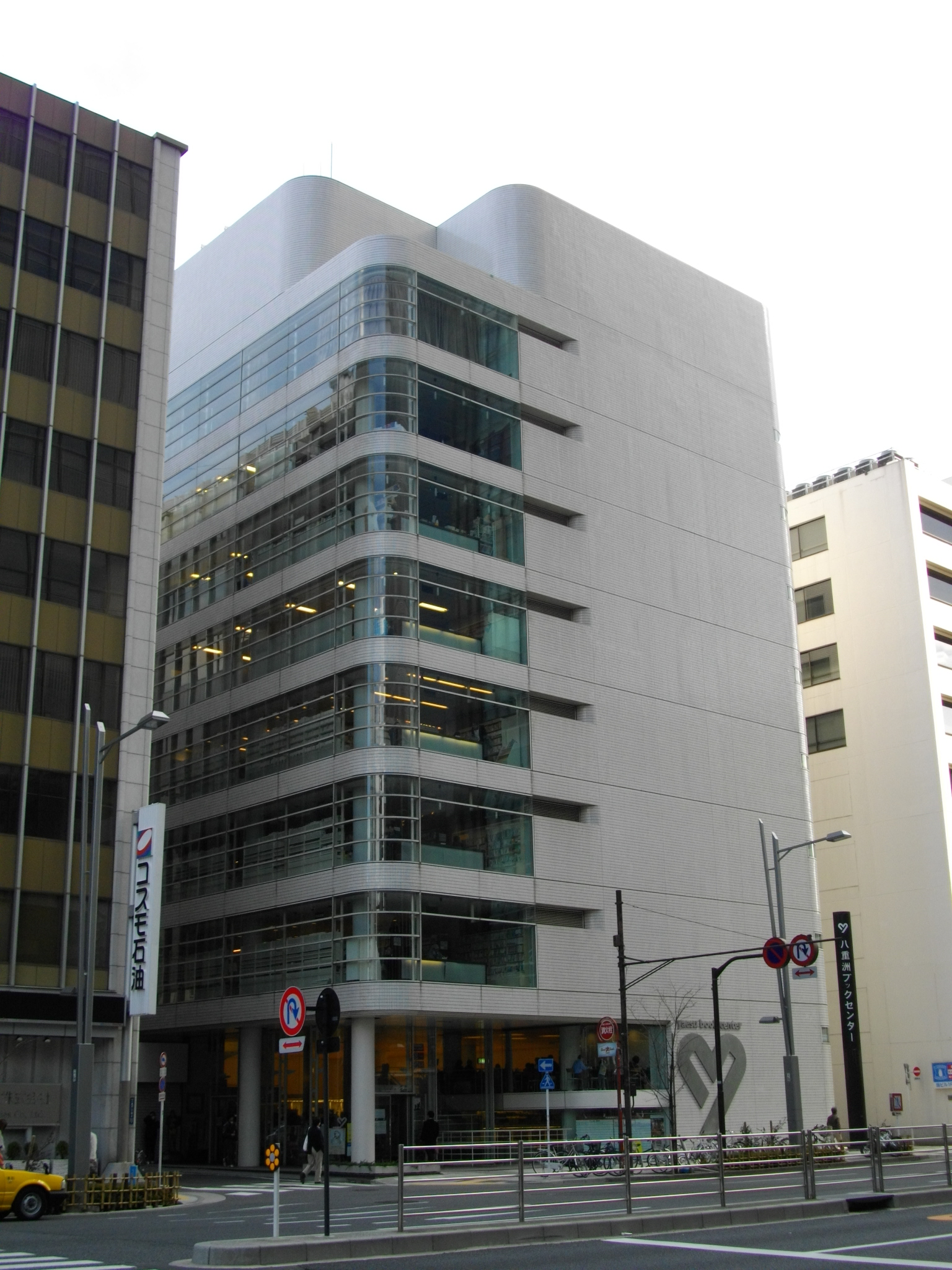 Yaesu Book Center